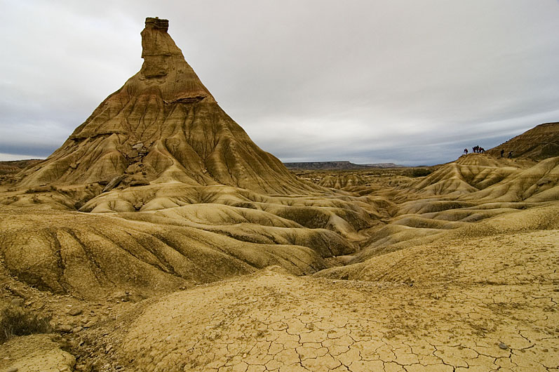 Bardenas Reales, in Navarra, Spain